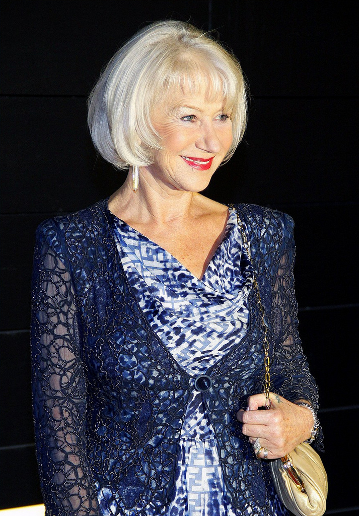 Helen Mirren - The Debt Photocall (Berlin, 2011-09-18)